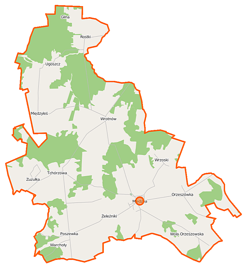 Map of Gmina Miedzna, Poland This map of Miedzna (gmina) was created from OpenStreetMap project data, collected by the community. This map may be incomplete, and may contain errors. Don't rely solely on it for navigation. Border coordinates52.577621.9654←↕→22.188352.4301